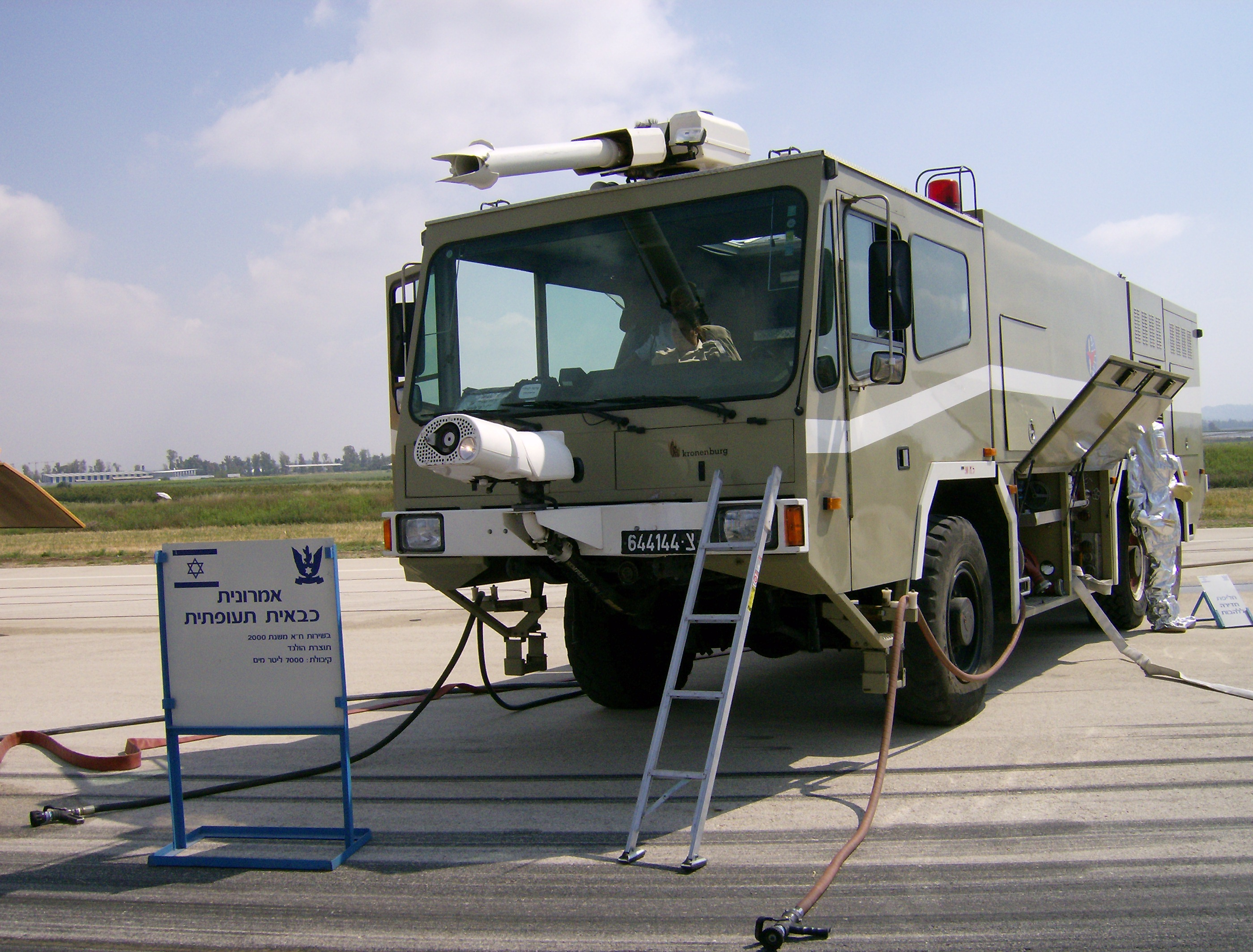 military firefighters carrier, Israeli air force